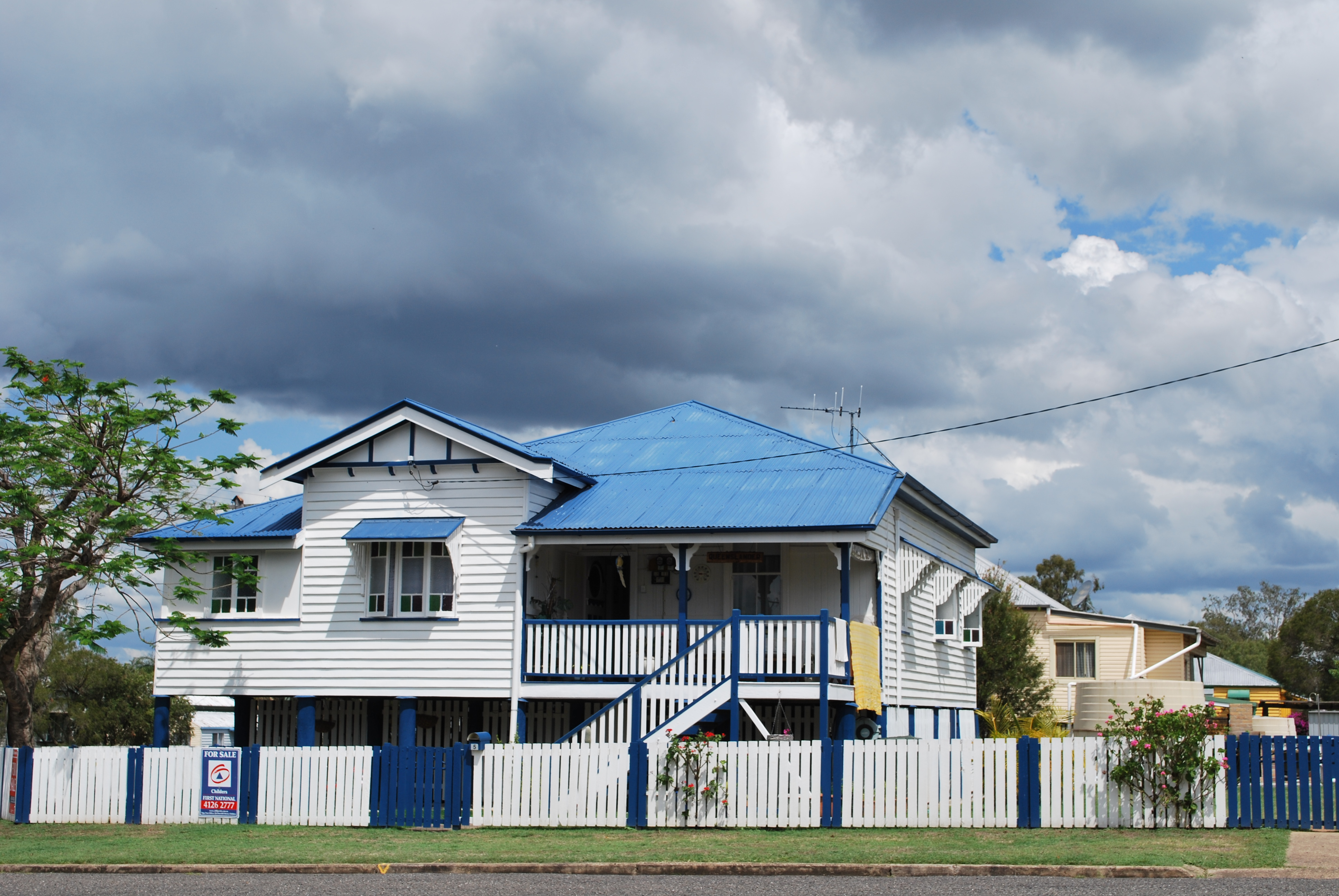 Residence at Biggenden, Queensland